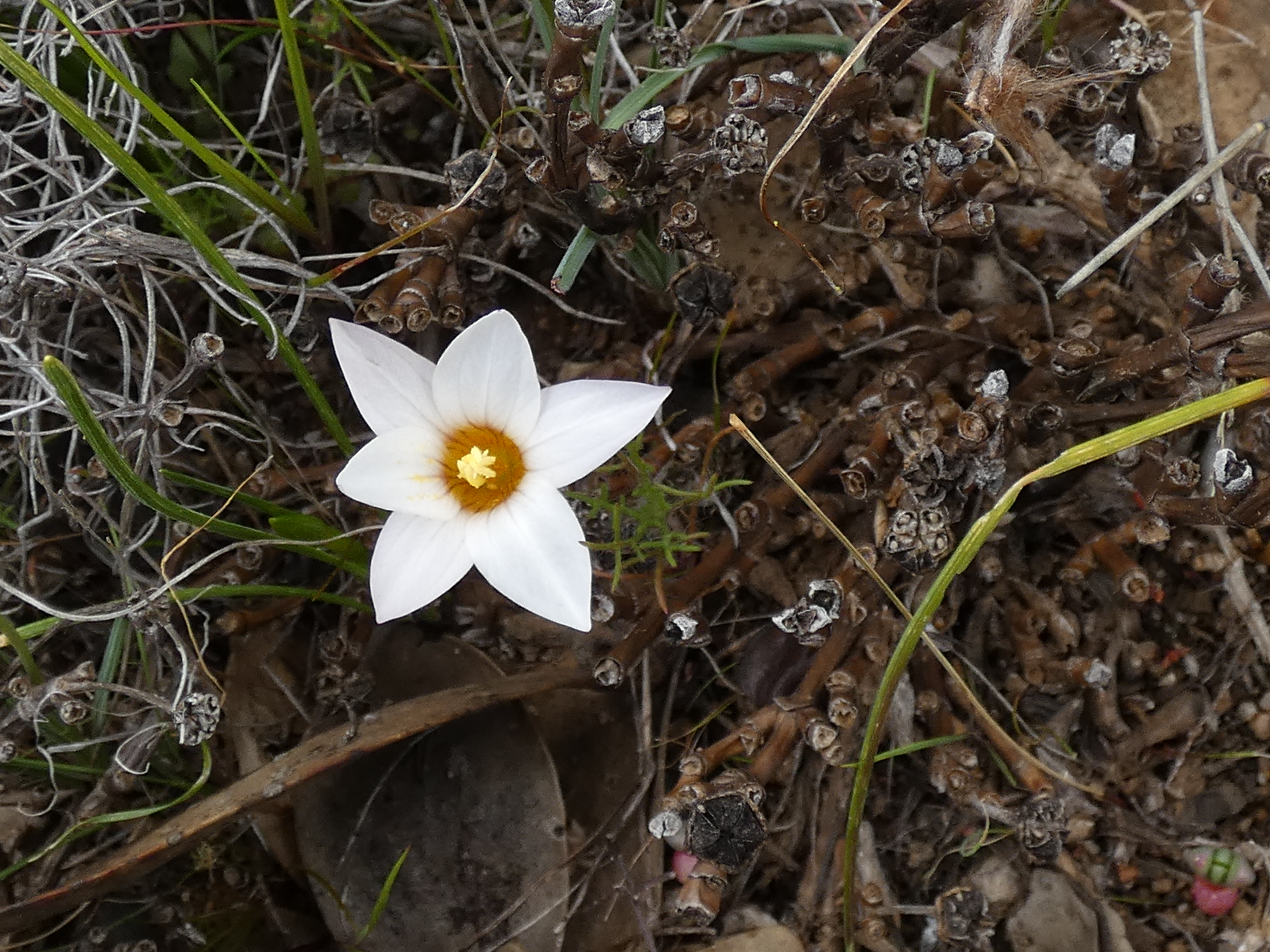 Romulea toximontana, a Gifberg endemic